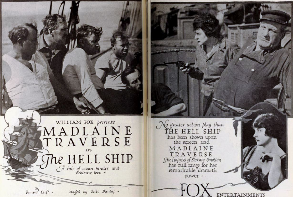 Advertisement for the American drama film The Hell Ship (1920) with Madlaine Traverse and Alan Roscoe, on pages 26 and 27 of the February 28, 1920 Exhibitors Herald.